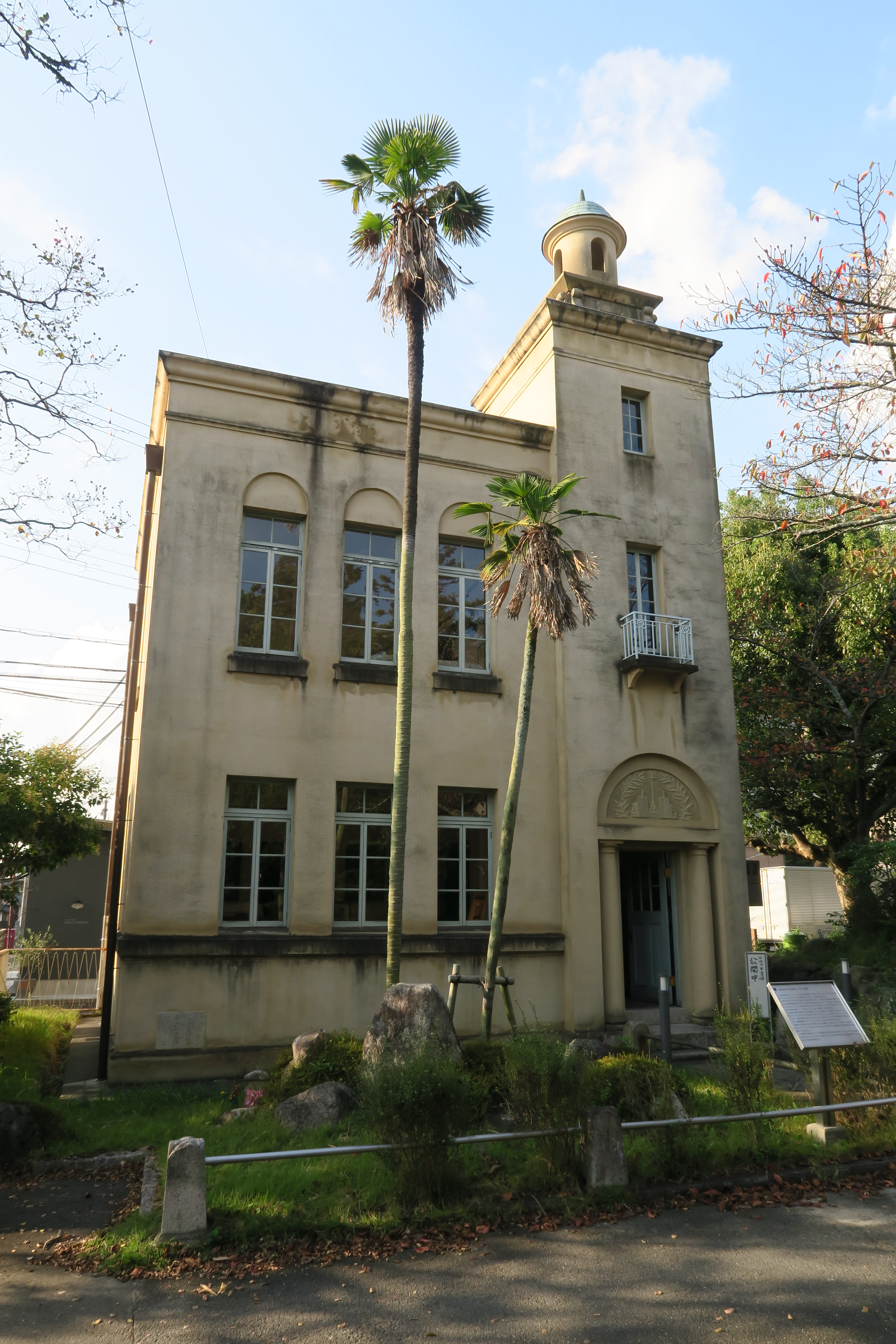 Former Minakuchi library, Koka, Shiga, japan